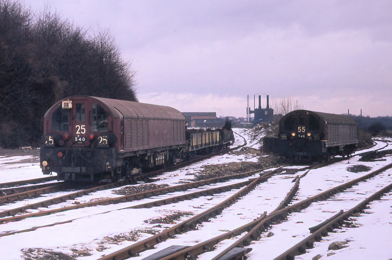 LT battery locos in maroon livery at Croxley Tip 1971